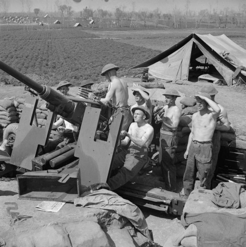 The British Army in Italy 1944 A Bofors anti-aircraft gun crew on the alert in sunny weather, 7 April 1944.